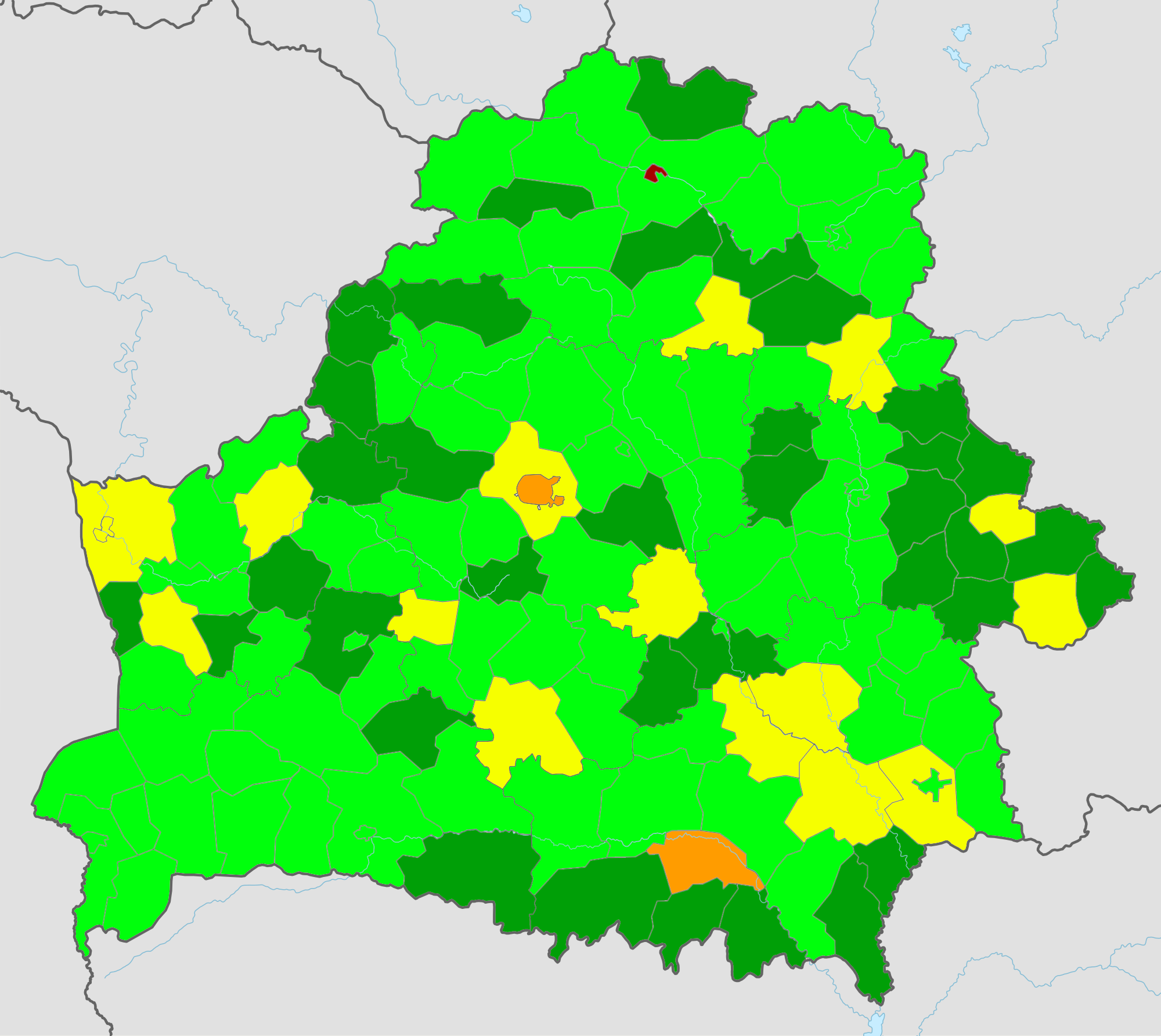 Total emission of pollutants into air from stationary sources in Belarus in 2013, in tons. Small brown spot is Navapolatsk with its major oil refinery; orange spots are Minsk, major industrial center, of Belarus and Mazyr rayon with another oil refinery. over 50k tons 20—50k tons 5—20k tons 1—5k tons less than 1k tons